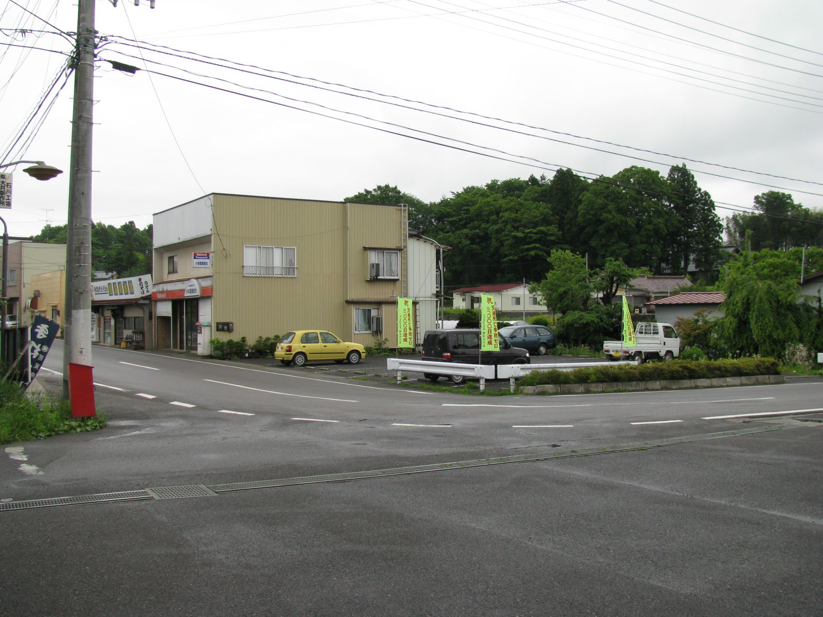 Nogisawa Station on Suigun Line